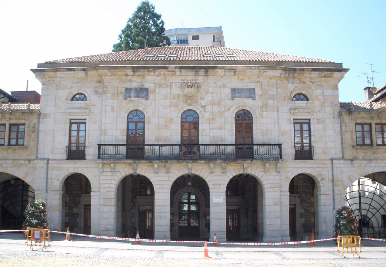 Ayuntamiento de Zumárraga